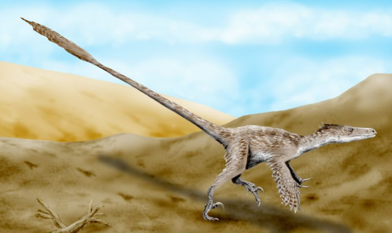 Velociraptor mongoliensis, a dromaeosaur from the Late Cretaceous of Mongolia, pencil drawing